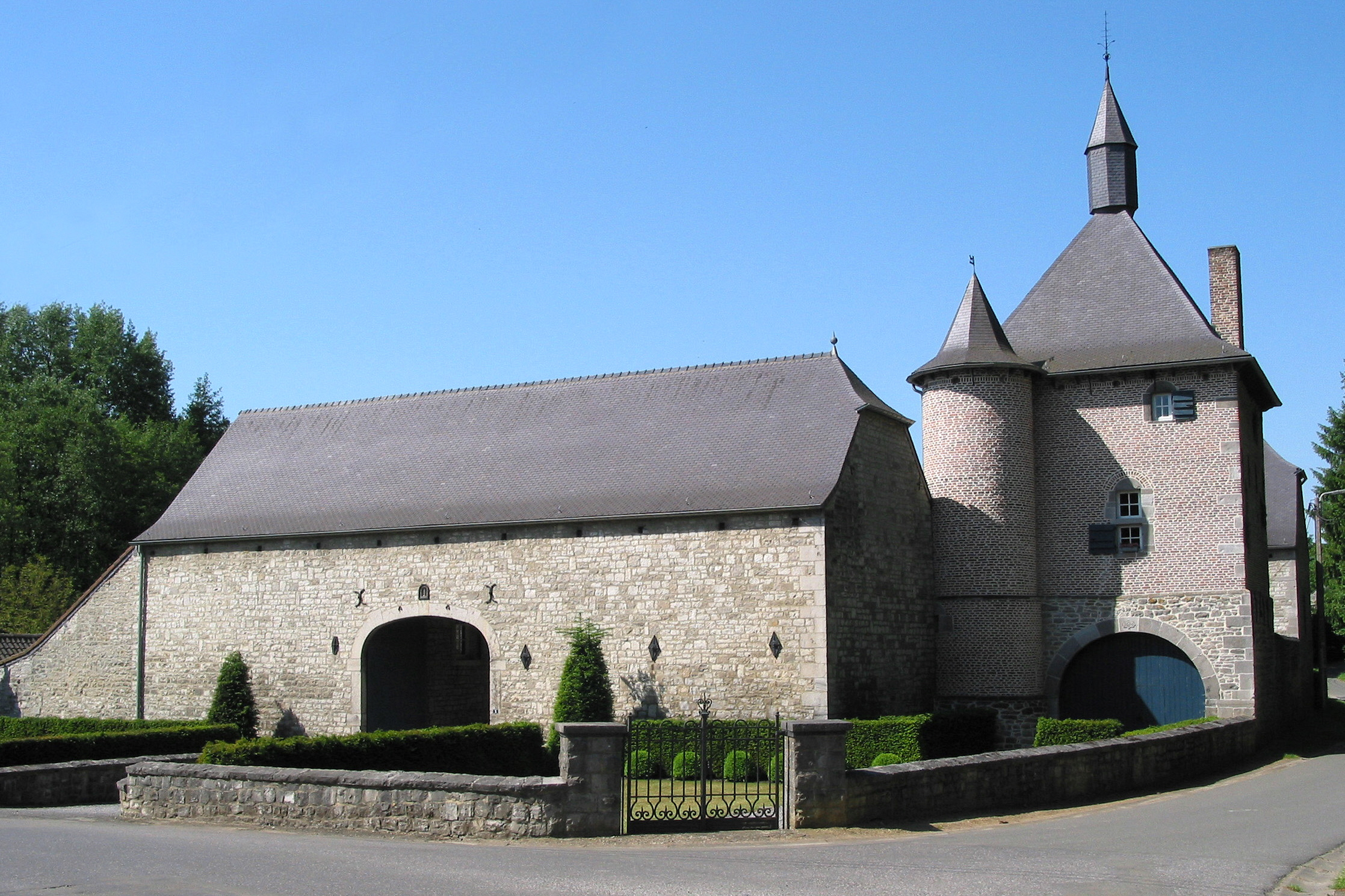 Mozet (Belgium), the "Marchand" castle farm (XVIIth century).